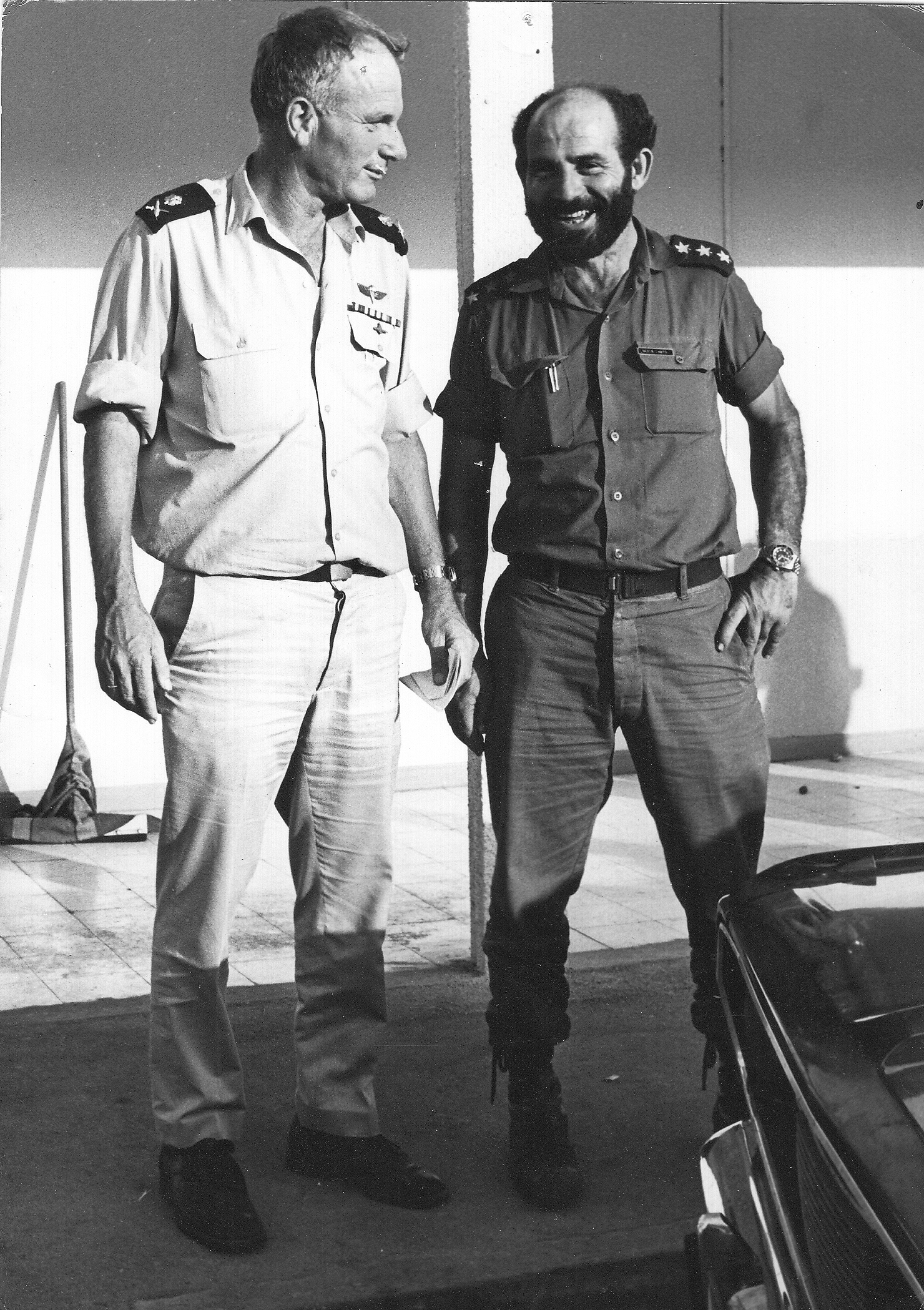 Bini & Yomi, Israel Defense Forces